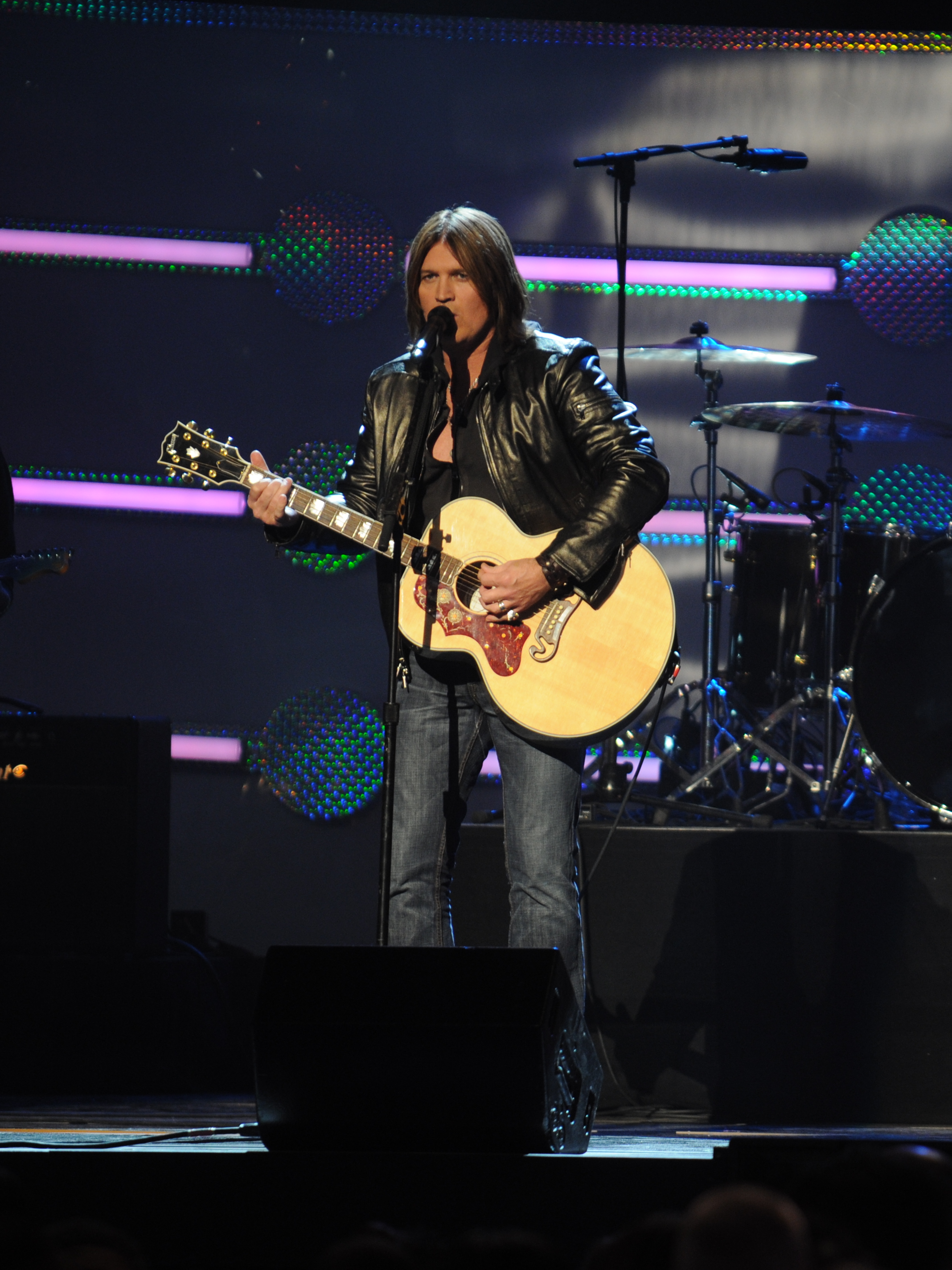 Cropped image of File:Miley and Billy Ray Cyrus at Kids Inaugural Concert.jpg, showing Billy Ray Cyrus perform at the "Kids Inaugural: We Are the Future" concert at the Verizon Center in downtown Washington, D.C., Jan. 19, 2009.